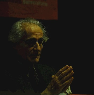 the italian philologist Luciano Canfora.